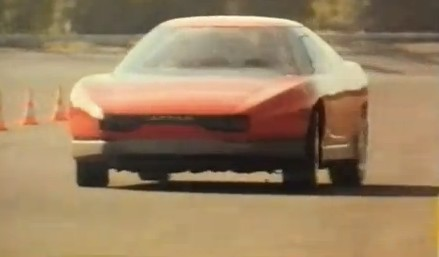 Citroen Activa Prototype from 1988